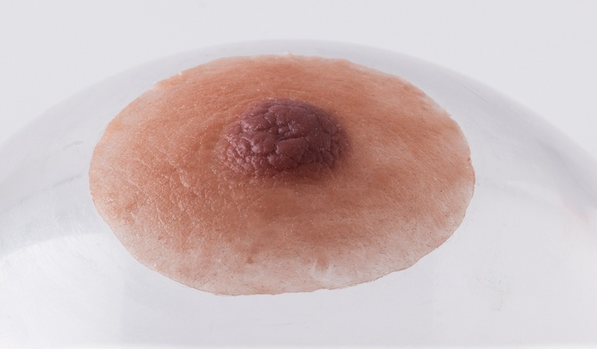 Nipple Prosthesis made by Pink Perfect